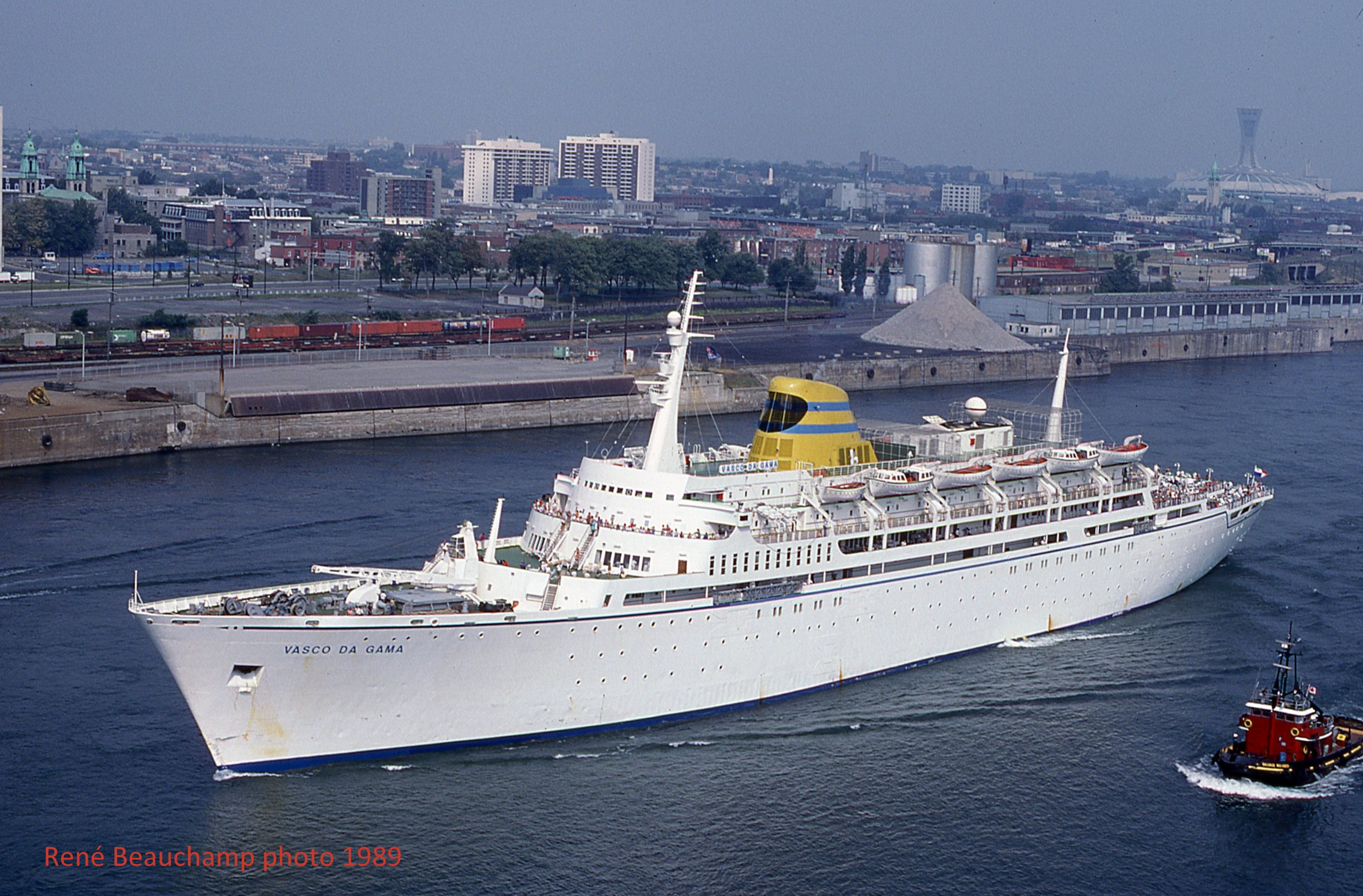 The cruise ship Vasco da Gama arriving at Montreal on September 11, 1989.